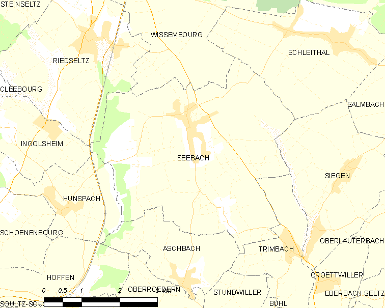 Map of French municipality